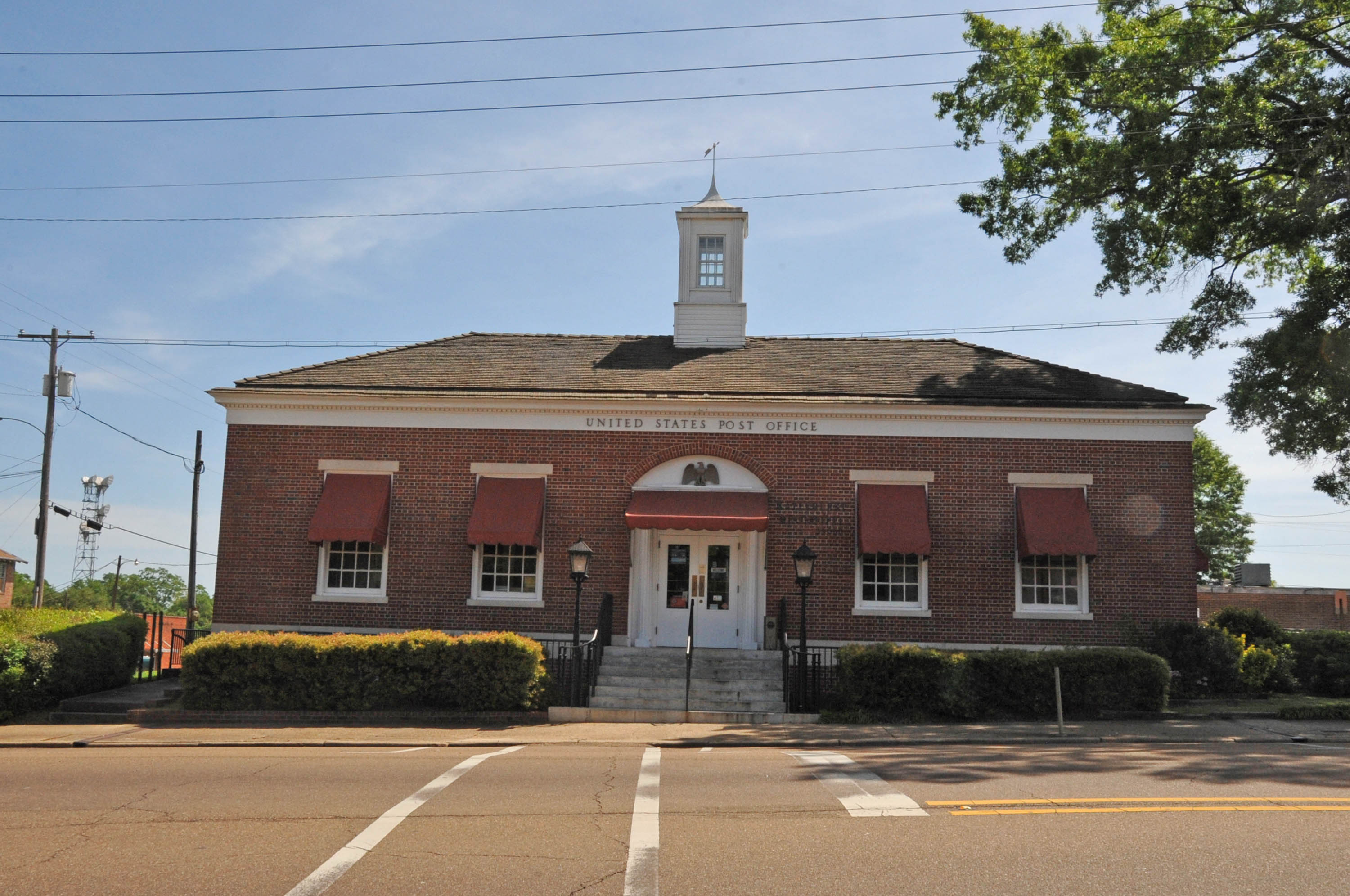 1929-1935 COLONIAL REVIVAL